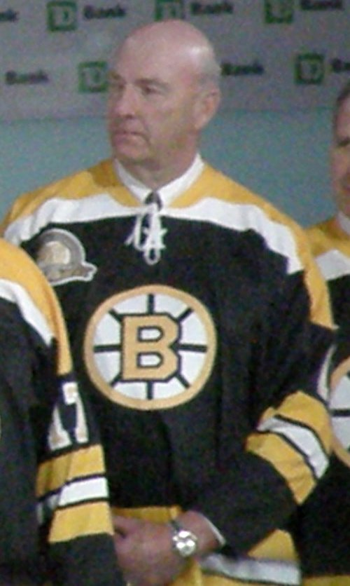 1970 Bruins reunion - Wayne Carleton Pittsburgh Penguins at (vs) Boston Bruins, TD Banknorth Garden (Boston Garden), March 18, 2010